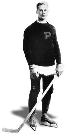 Hobey Baker while a member of the Princeton University Tigers hockey team.